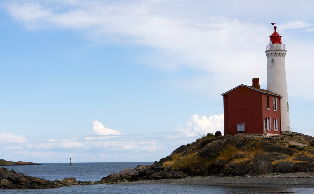 Fisgard Lighthouse in Colwood, British Columbia, Canada